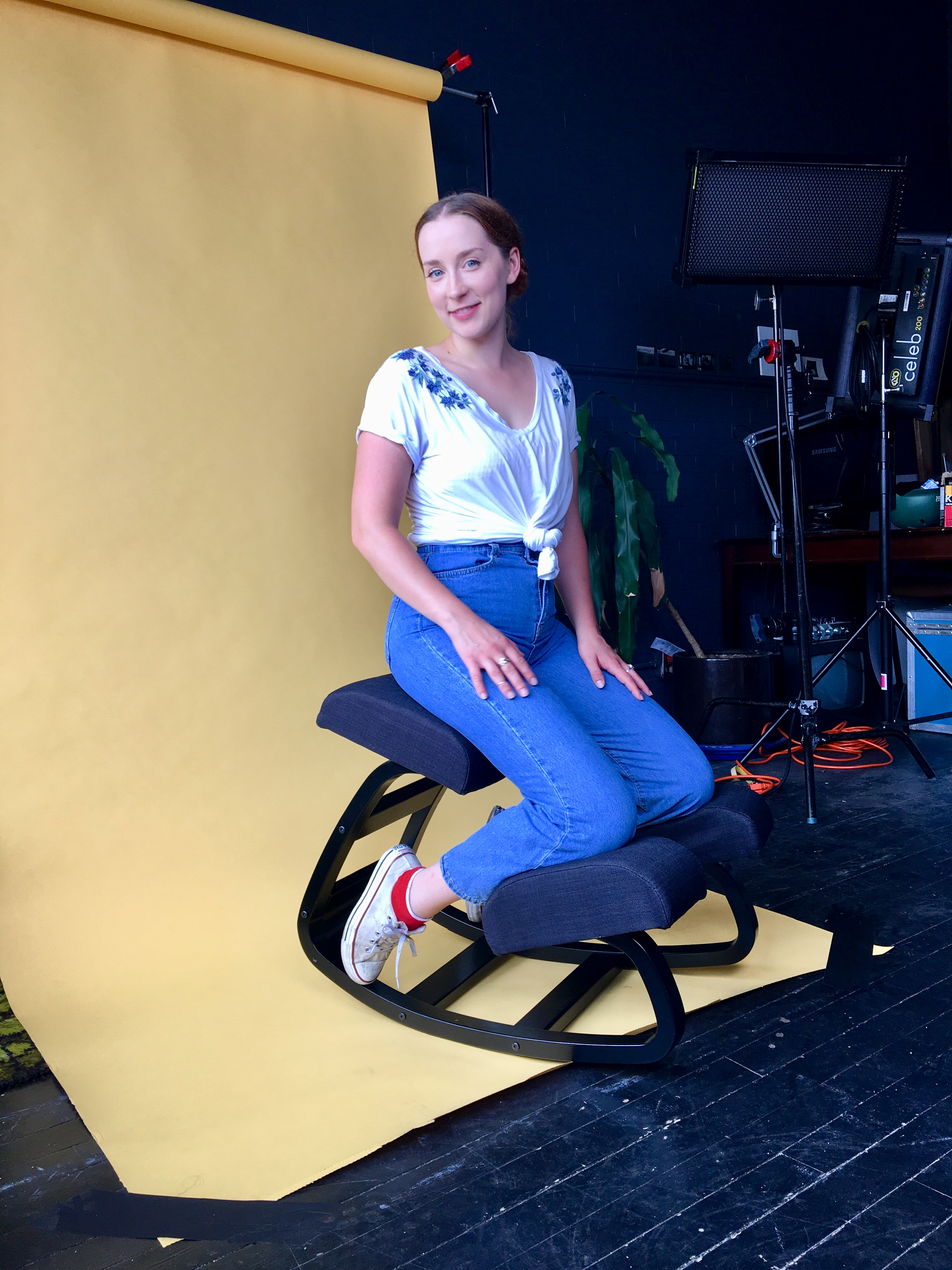 A balance kneeling chair